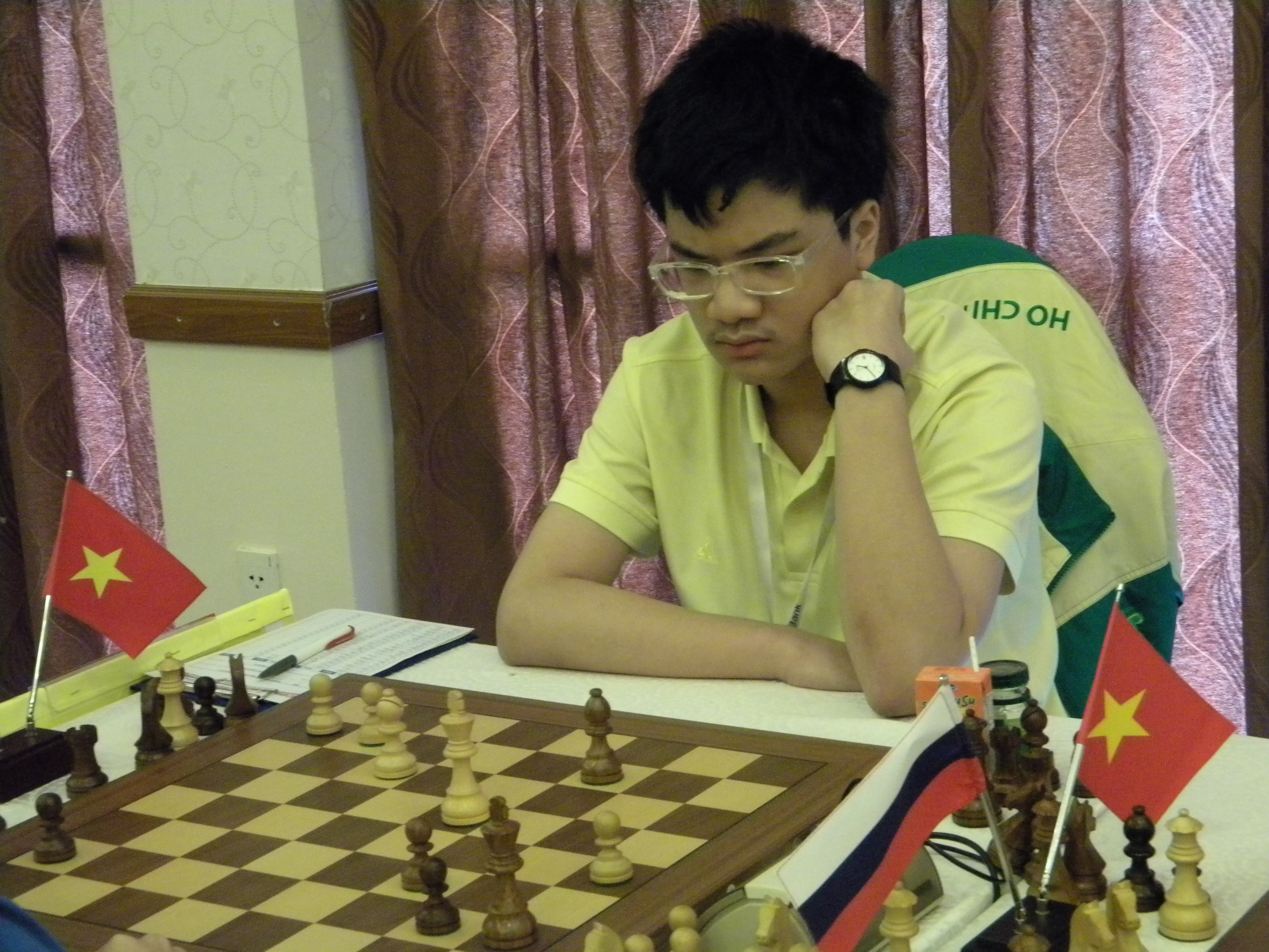 Nguyen Anh Khoi in HDBank chess tournament 2016